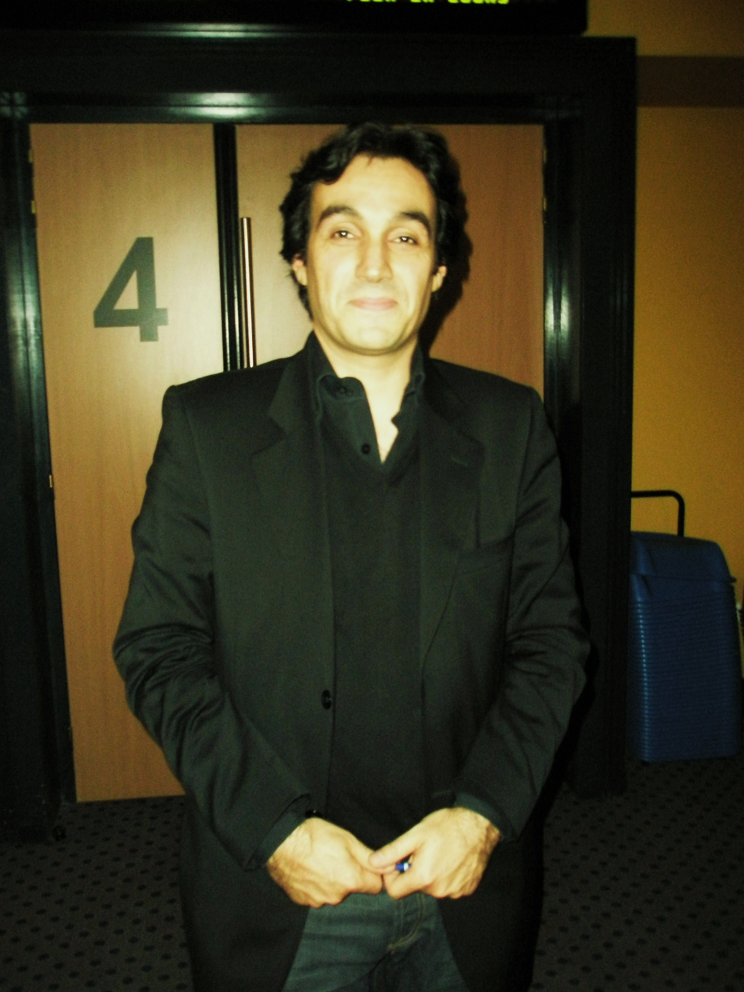 The french director, Philippe Haïm